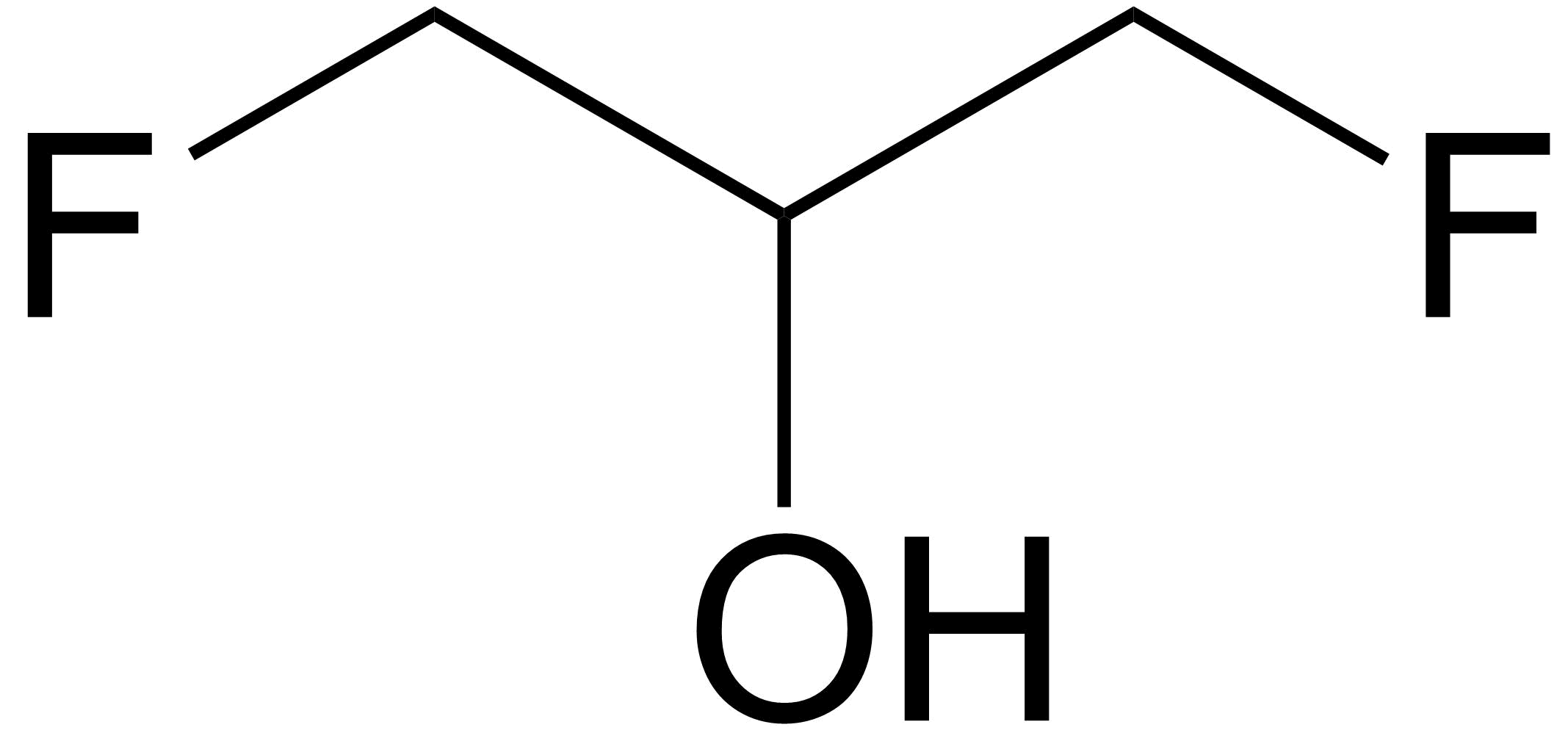 1,3-Difluoro-2-propanol 2D molecular structure